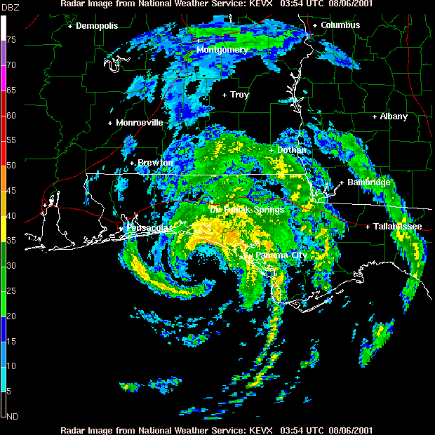 Radar image showing Barry at landfall.